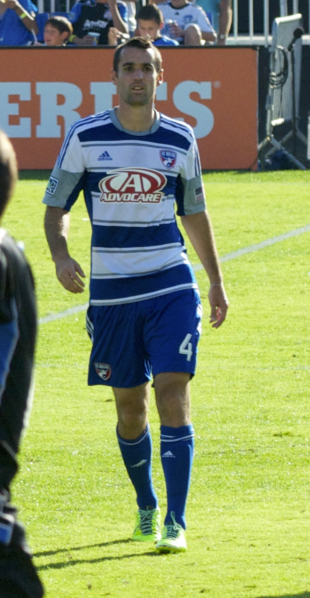 Andrew Jacobson, FC Dallas, Buck Shaw Stadium, 26 October 2013